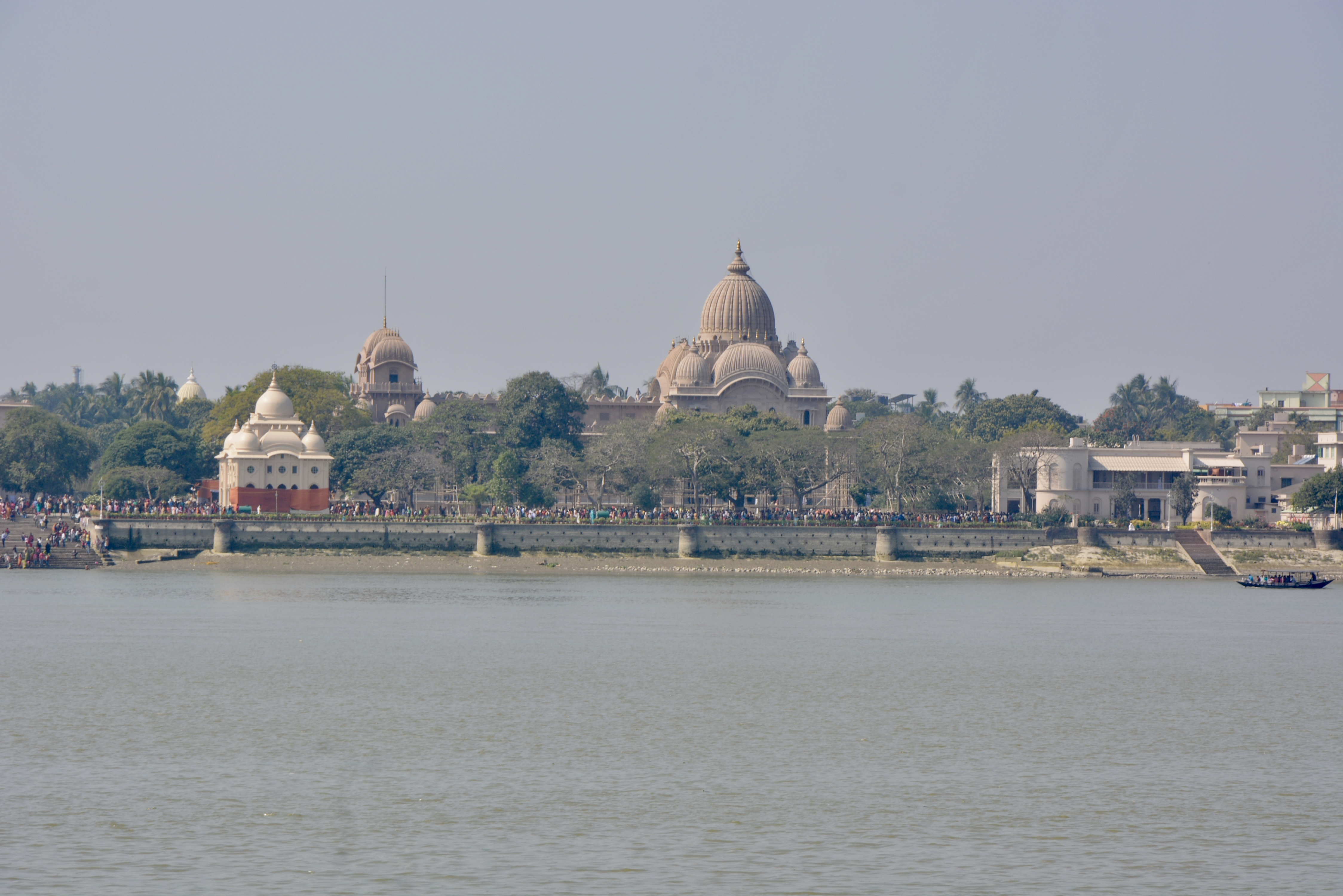 This photograph of Belur Math is taken from a ghat in Baranagar.